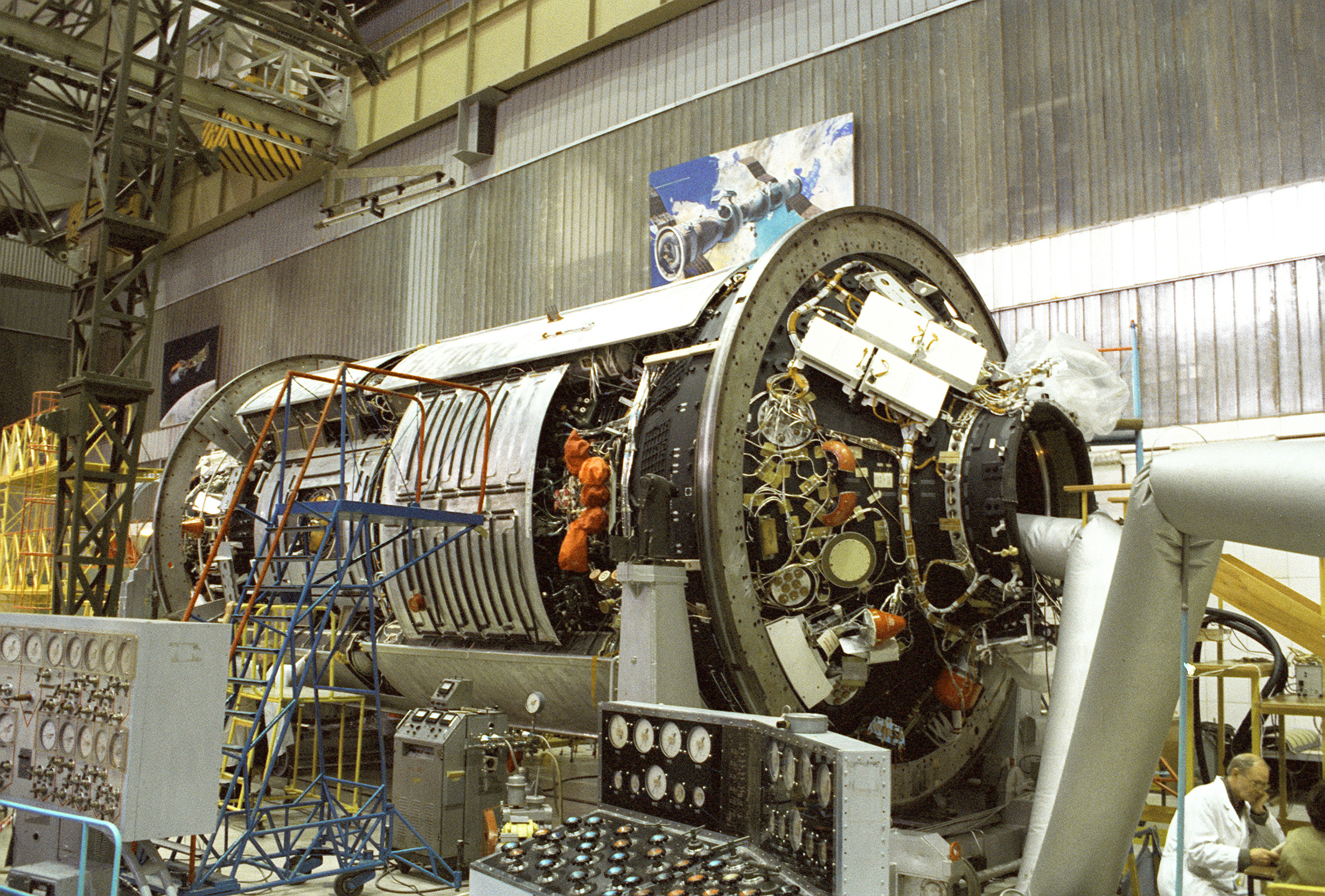 In this photograph, Russians are working on the aft portion of the United States-funded, Russian-built Functional Cargo Bay (FGB) also known as Zarya (Russian for sunrise). Built at Khrunichev, the FGB began pre-launch testing shortly after this photo was taken. Launched by a Russian Proton rocket from the Baikonu Cosmodrome on November 20, 1998, Zarya was the first element of the International Space Station (ISS) followed by the U.S. Unity Node. The aft docking mechanism, Pirs, on the far right with ventilation ducting rurning through it, will be docked with the third Station element, the Russian Service Module, or Zvezda.